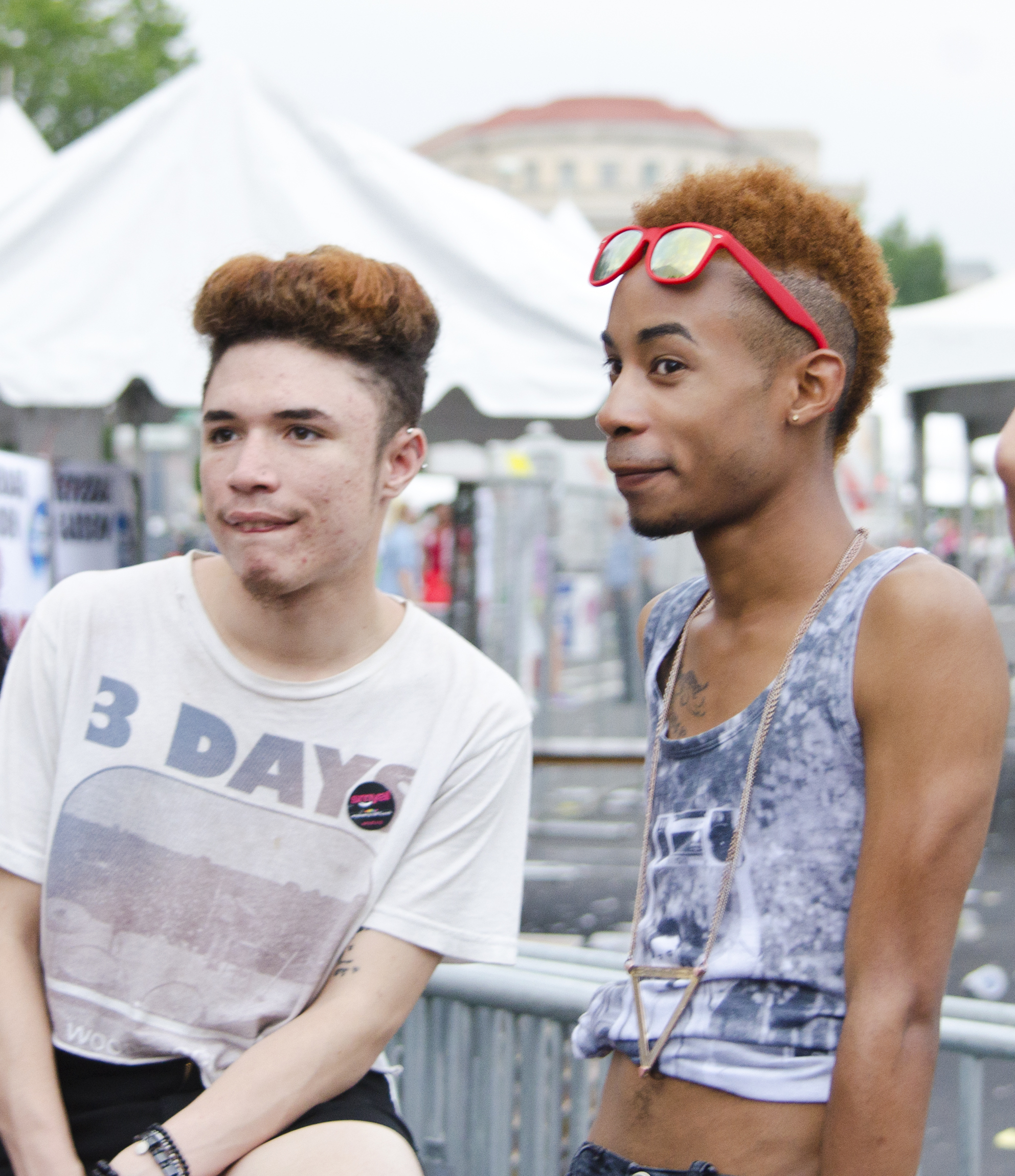 two cute twink boys - DC Capital Pride street festival - 2013-06-09